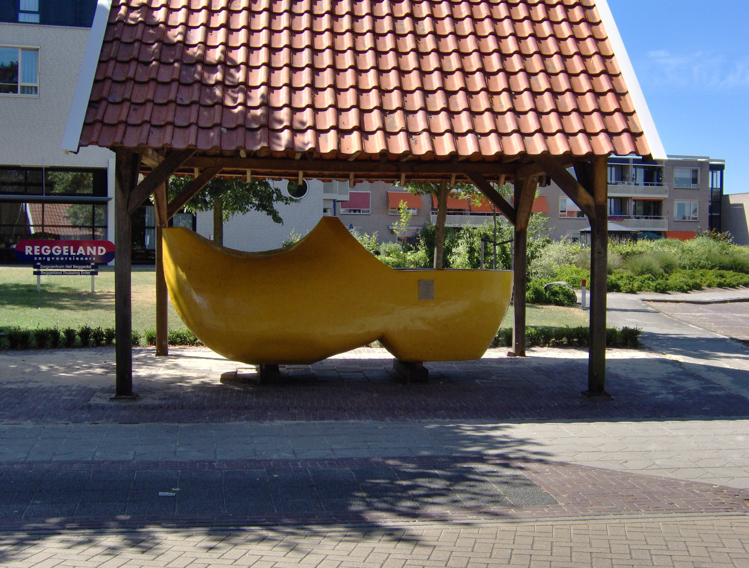 Worlds largest wooden shoe made out of one piece of wood, measuring 403 x 171 x 169 centimetres. In the Guinness Book of Records since June 26, 1991. It stands in the village of Enter, in the municipality of Wierden, Overijssel, the Netherlands